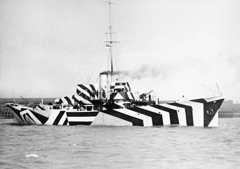 Photograph of British Kil class patrol gunboat HMS Kildangan painted in dazzle camouflage.